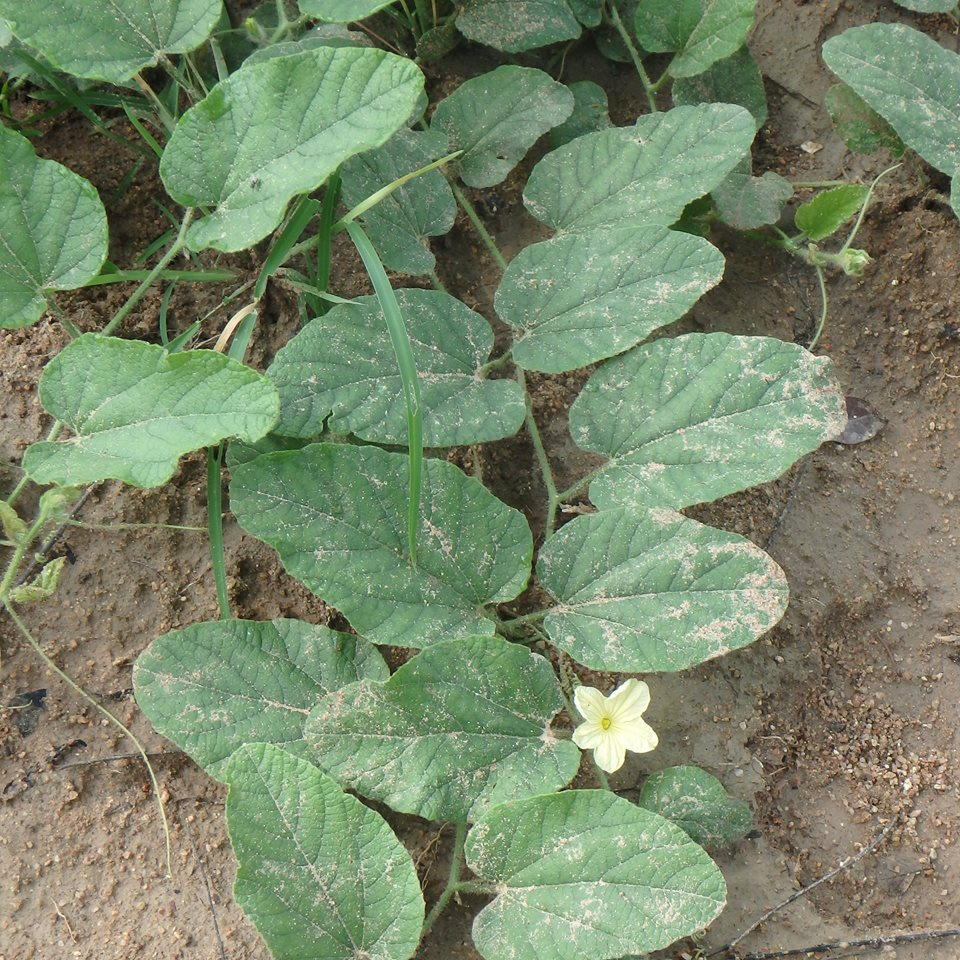 Cucumis hirsutus Sond. - Niassa reserve Mozambique